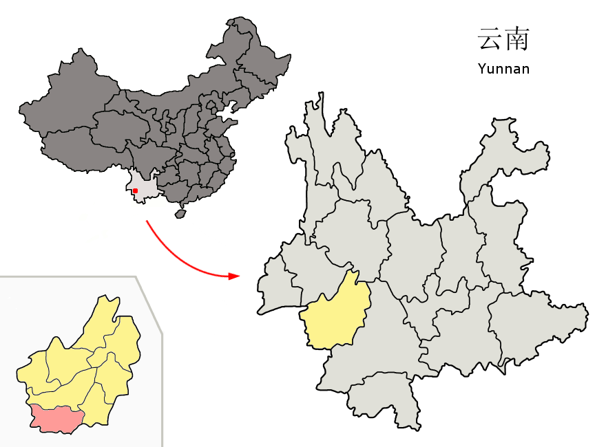 Location of Cangyuan County (pink) and Lincang Prefecture (yellow) within Yunnan province of China Map drawn in september 2007 using various sources, mainly : Yunnan province administrative regions GIS data: 1:1M, County level, 1990 Yunnan Counties map from